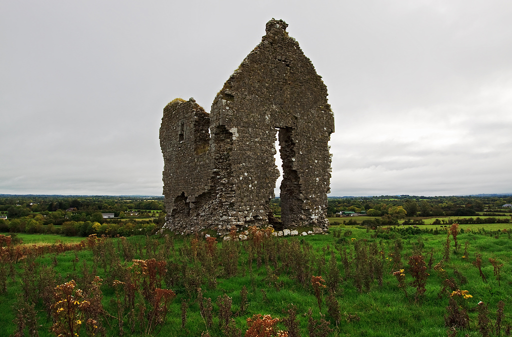 Castles of Munster: Knocklong, Limerick This O'Hurley tower is on a hilltop overlooking the village of Knocklong just over the border in Co. Limerick. Held by Garrett MacThomas in 1583, it was remodelled in the C17.